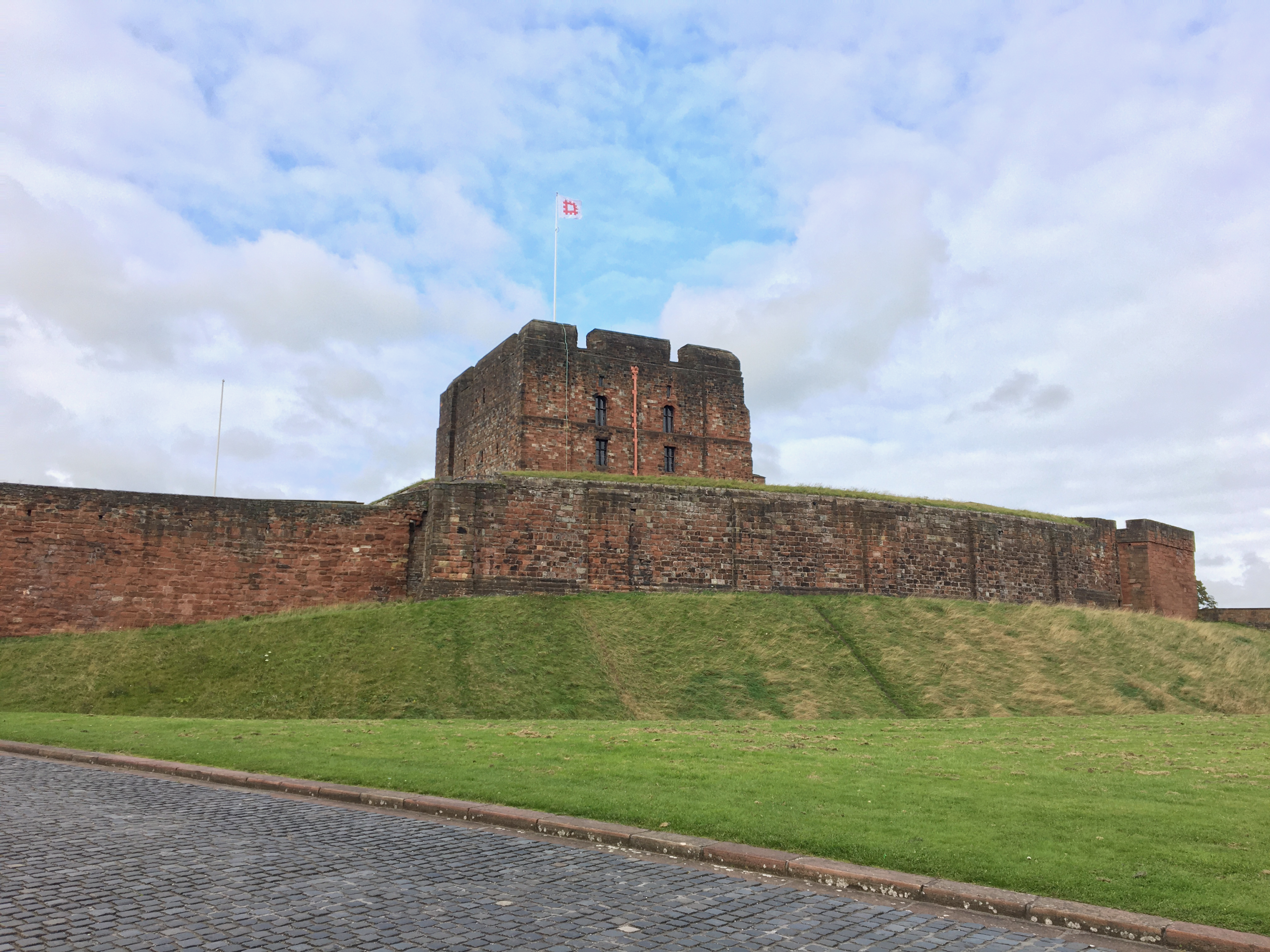 Carlisle Castle Wikidata has entry Q614836 with data related to this item.